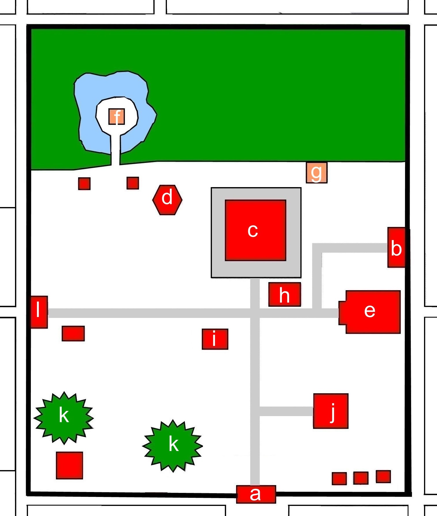 Layout of Zentsû-ji Temple - Tô-in